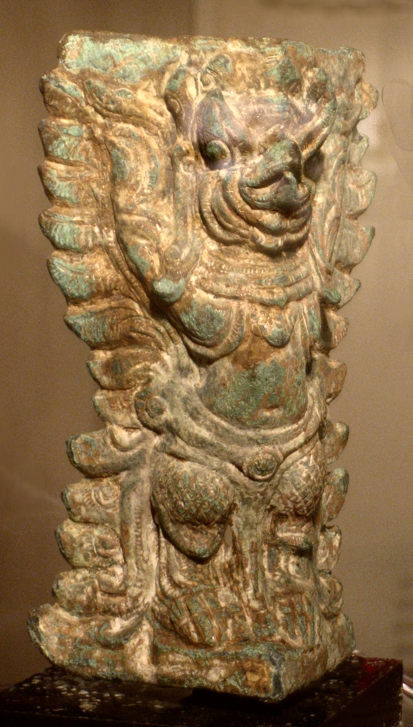 Garuda figure, gilt bronze, Khmer Empire, 12th-13th century, John Young Museum, University of Hawaii at Manoa